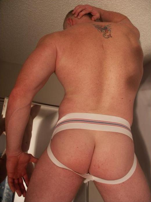 My photo. Date unknown. Article: Jockstrap.